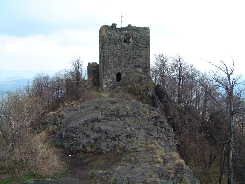 Ralsko fortress, Northern Bohemia, Czech Republic